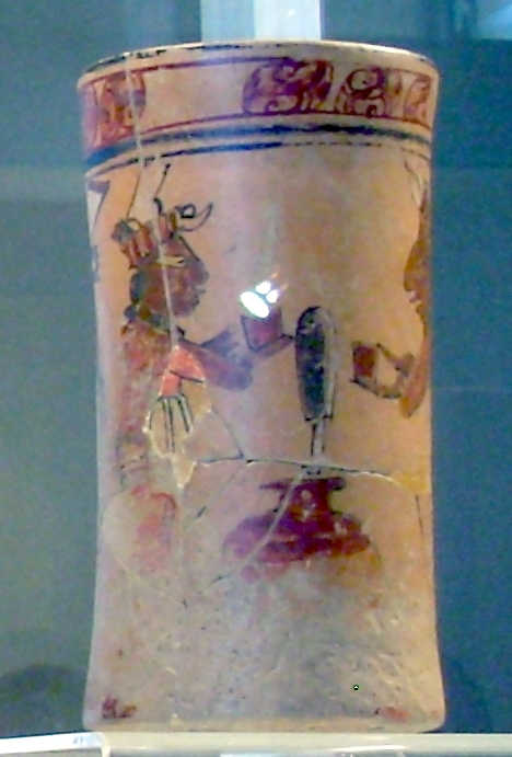 Late Classic ceramic vessel from the Maya ruins of Ixtutz, Peten, Guatemala. Now in the Museo Regional del Sureste de Petén in Dolores.